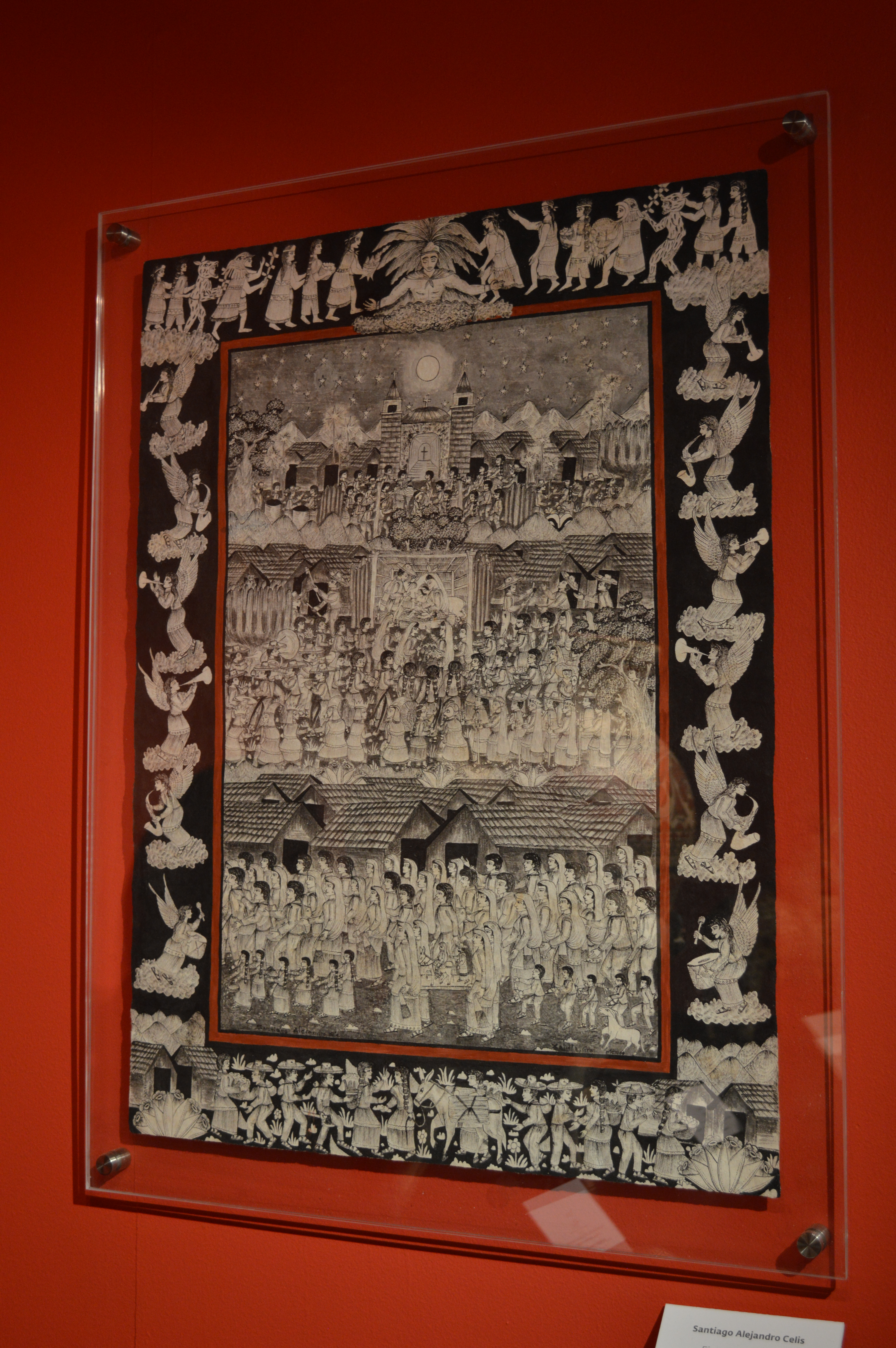 Amate work by Santiago Alejandro Celis of Xalitla, Guerrero at the Ocho Regiones Puro Guerrero at the Museo de Culturas Populares in Mexico City